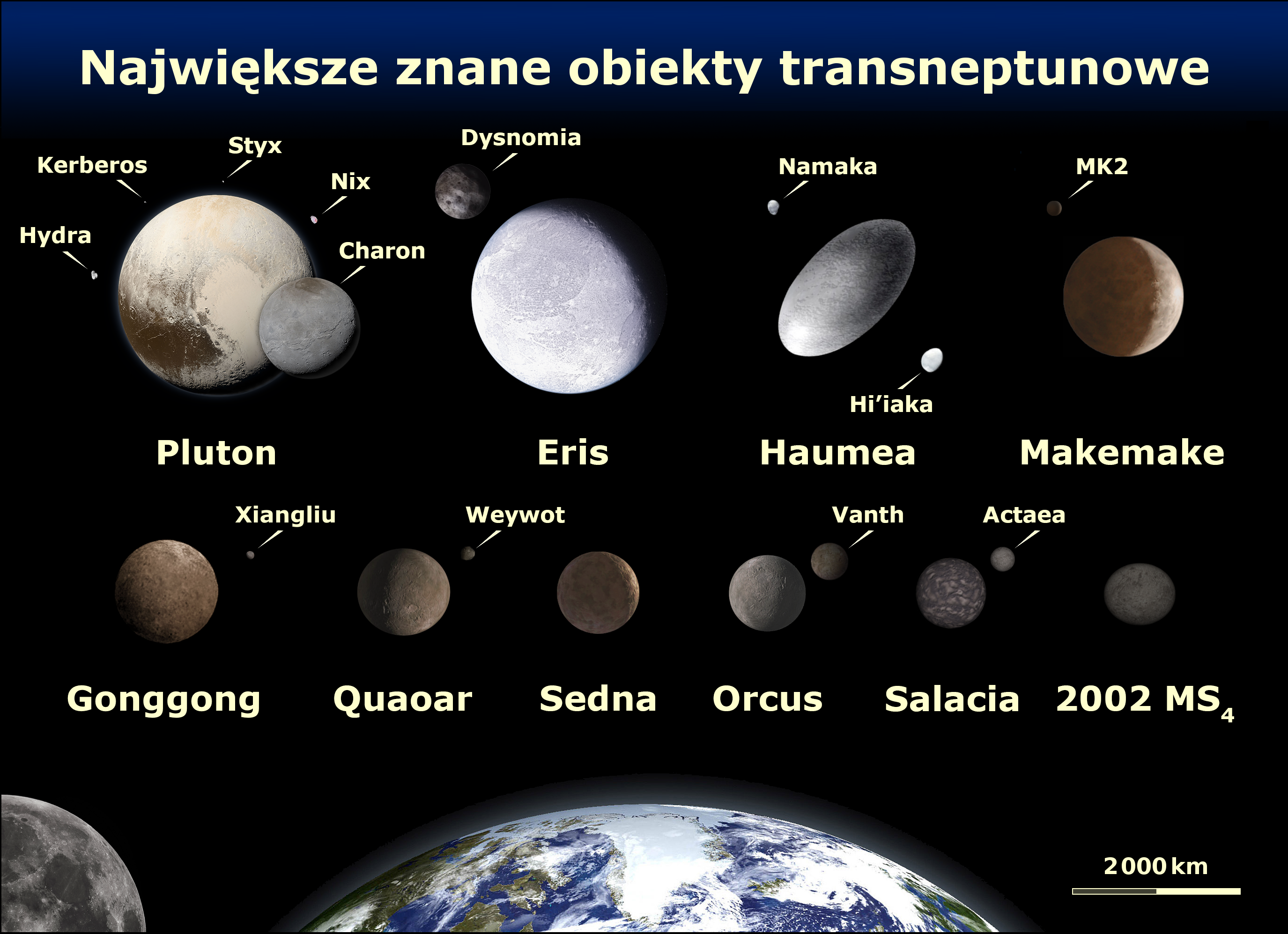 Comparison of the eight largest TNOs